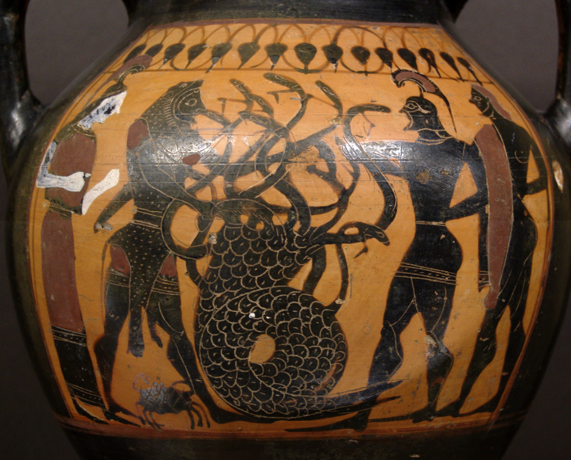 Heracles and Iolaus fighting the Lernaean Hydra.